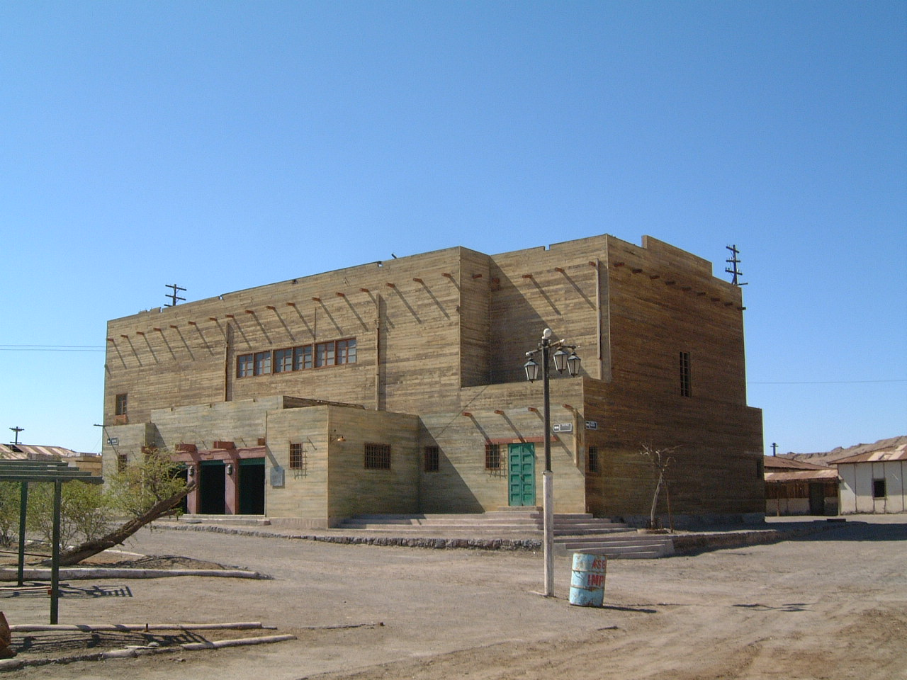 Theater in Humberstone Saltpeter Works Chile